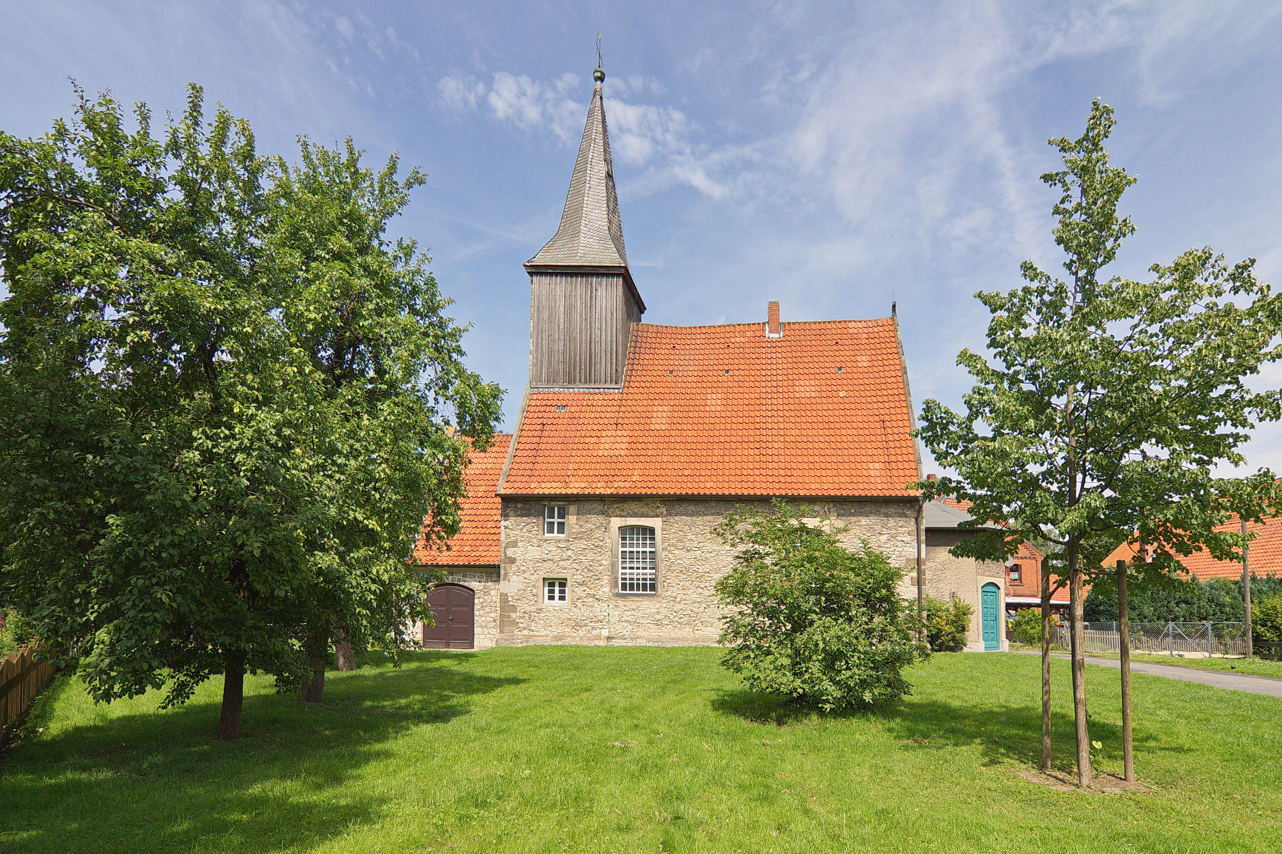 Kirche in Müllingen (Sehnde), Niedersachsen, Deutschland